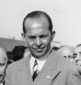 Paul of Greece in 1936.